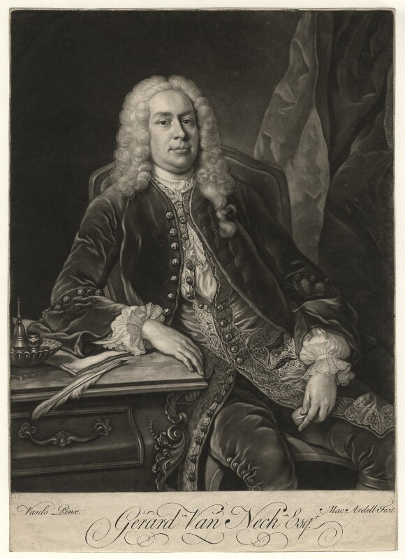 James Macardell, after Jean Baptiste van Loo mezzotint, circa 1750-1765 13 7/8 in. x 10 in. (353 mm x 253 mm) paper size